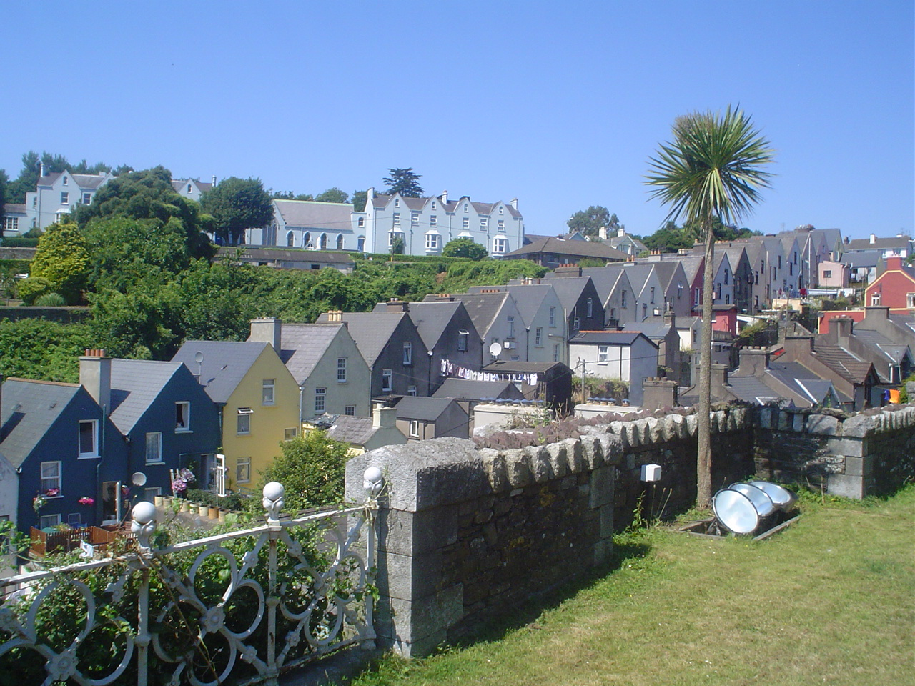 Cobh hilly street